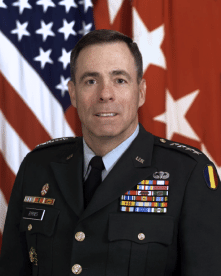 GEN Kevin Byrnes, Commander TRADOC